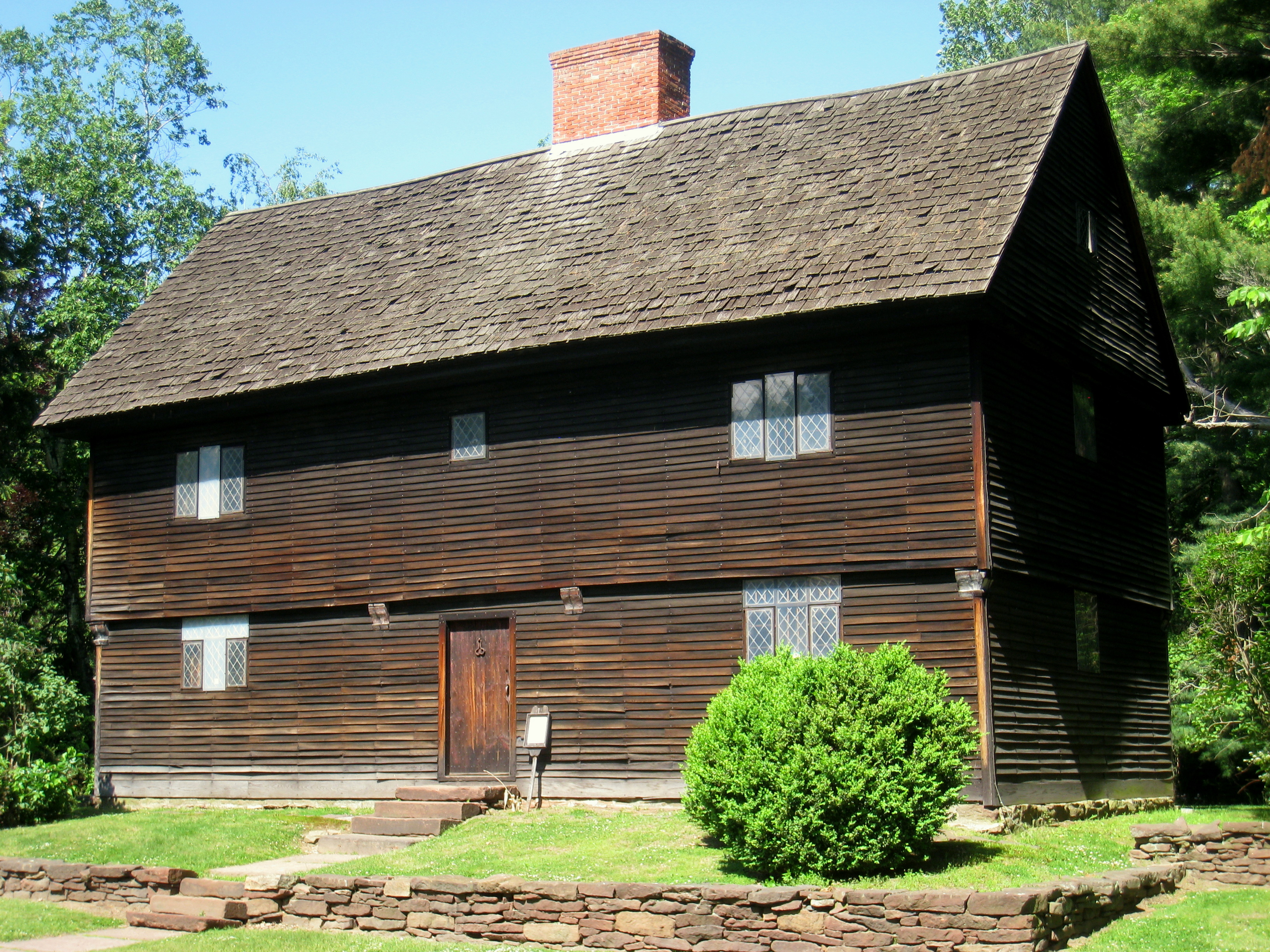 Buttolph-Williams House, Wethersfield, Connecticut, USA. Built around 1715.